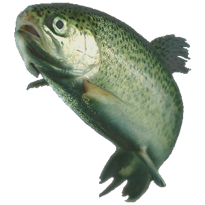 An image of a rainbow trout derived from the public domain photo Image:RainbowTrout.jpg. This image has been modified to the extent that it is not an accurate or representative image of this species. It is primarily intended for decorative and/or humorous use.